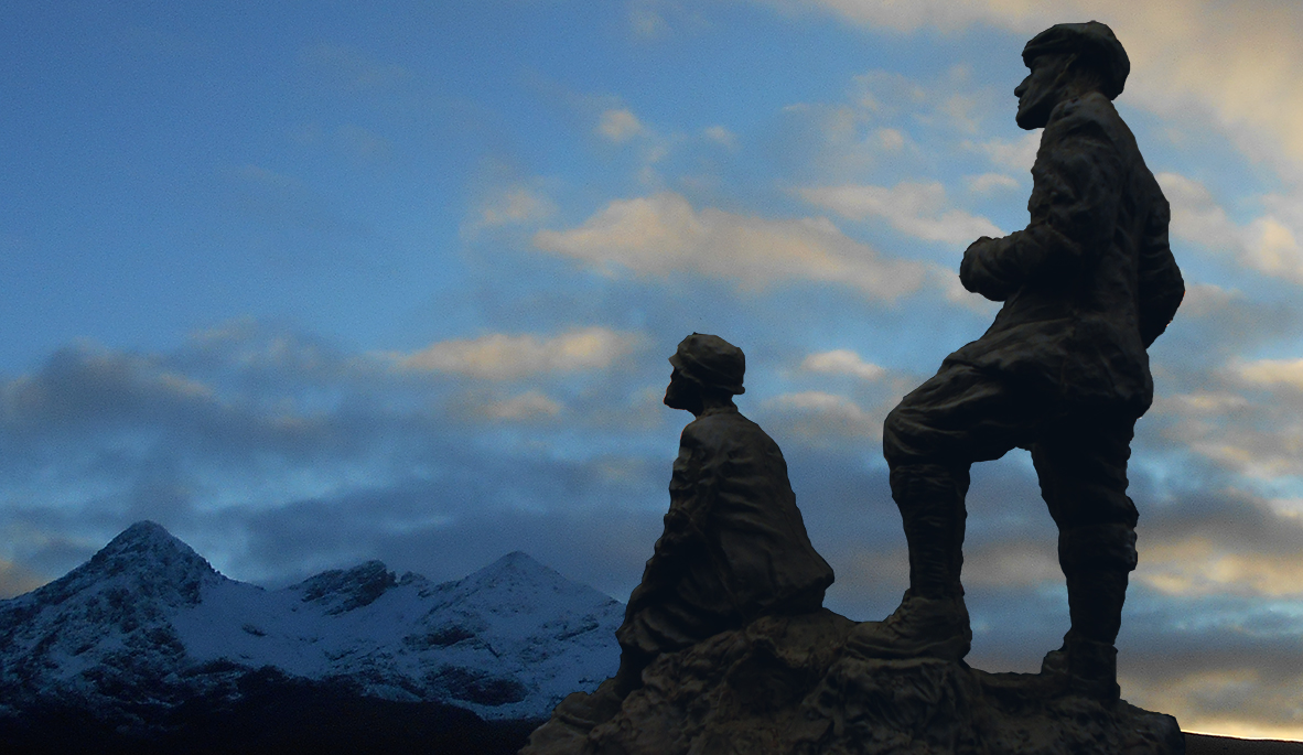 Digitally created impression of how the commemorative statue will appear